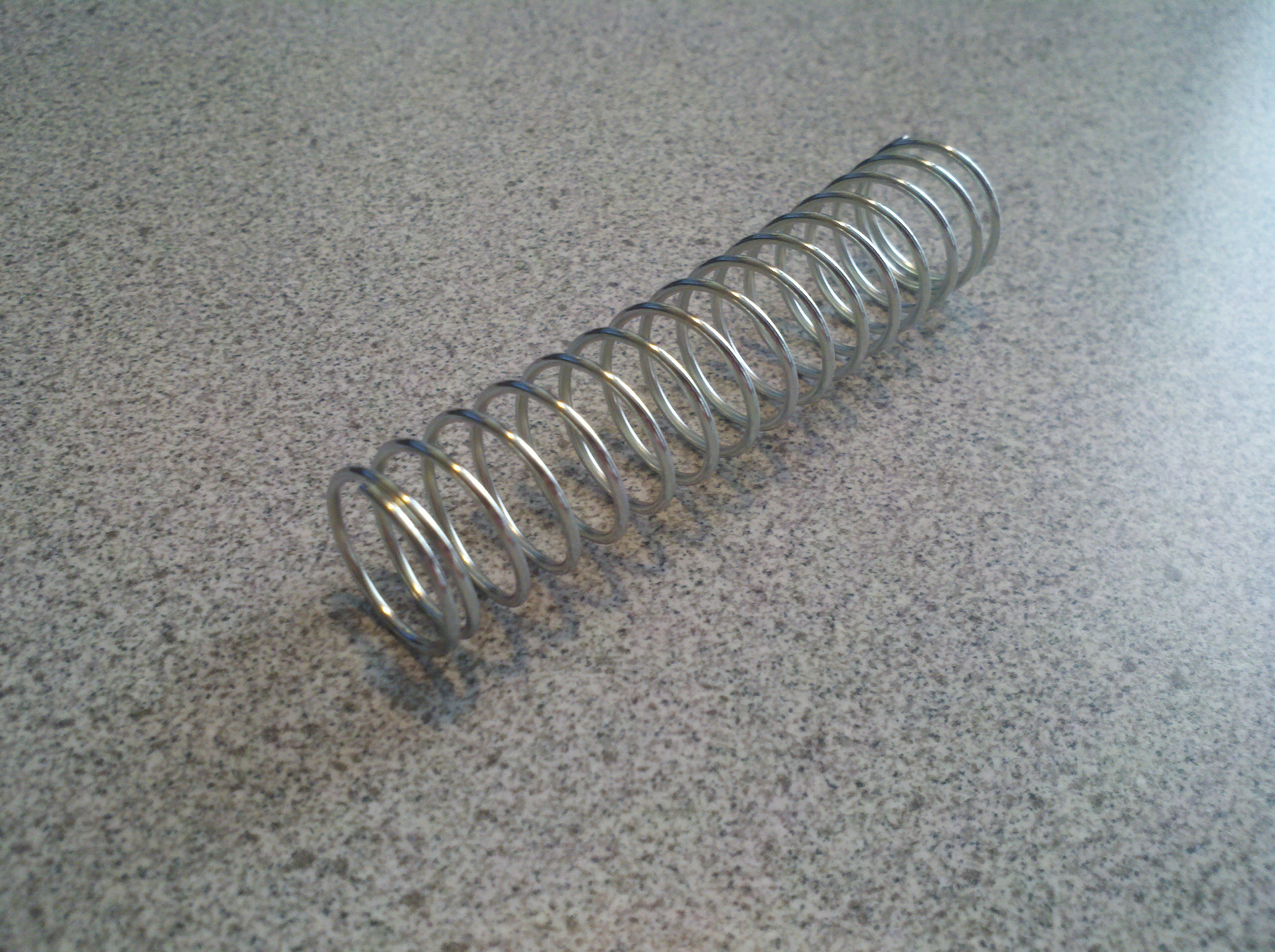 A small compression spring